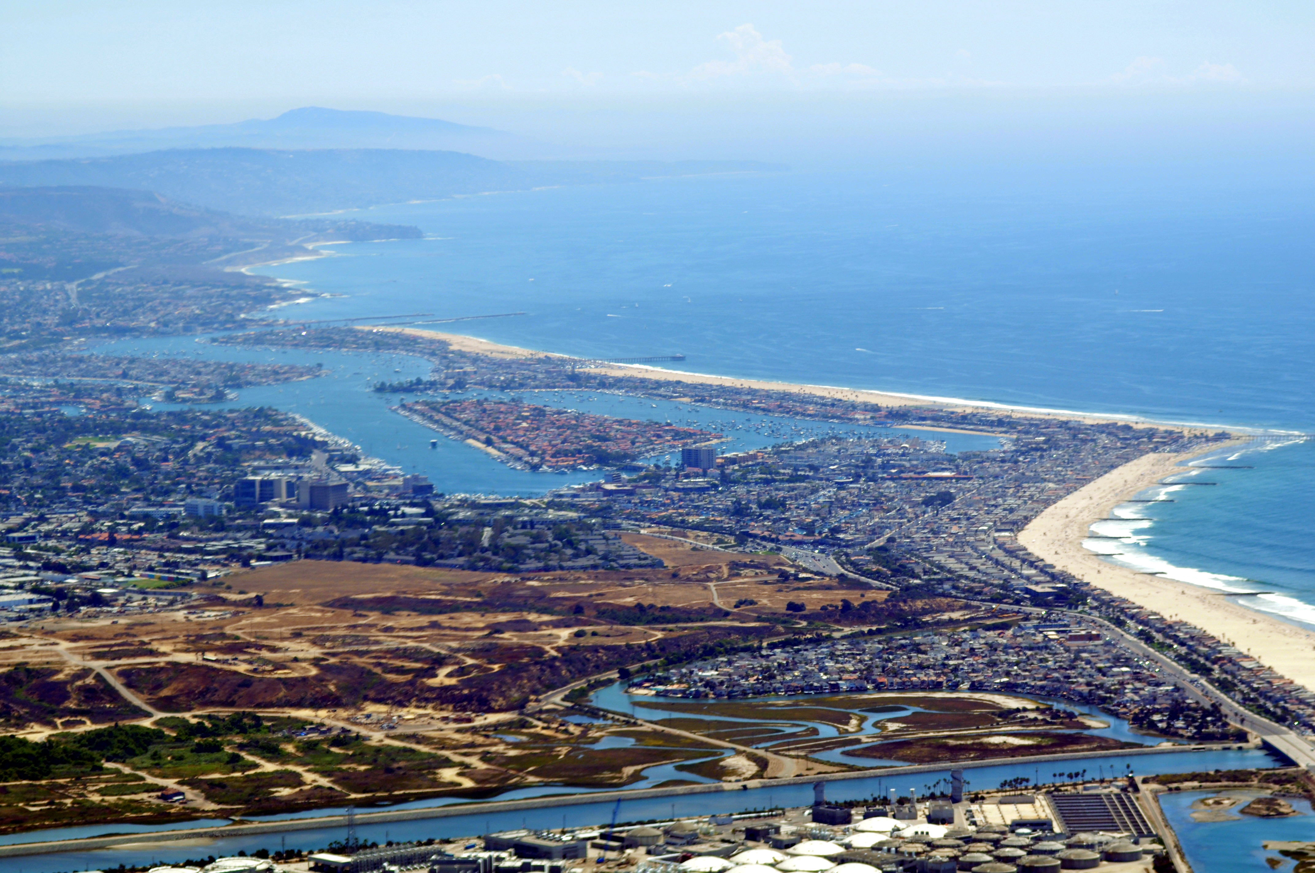 Newport Beach Triangle Point photo D Ramey Logan please publish photographer credit if used outside of Wiki projects